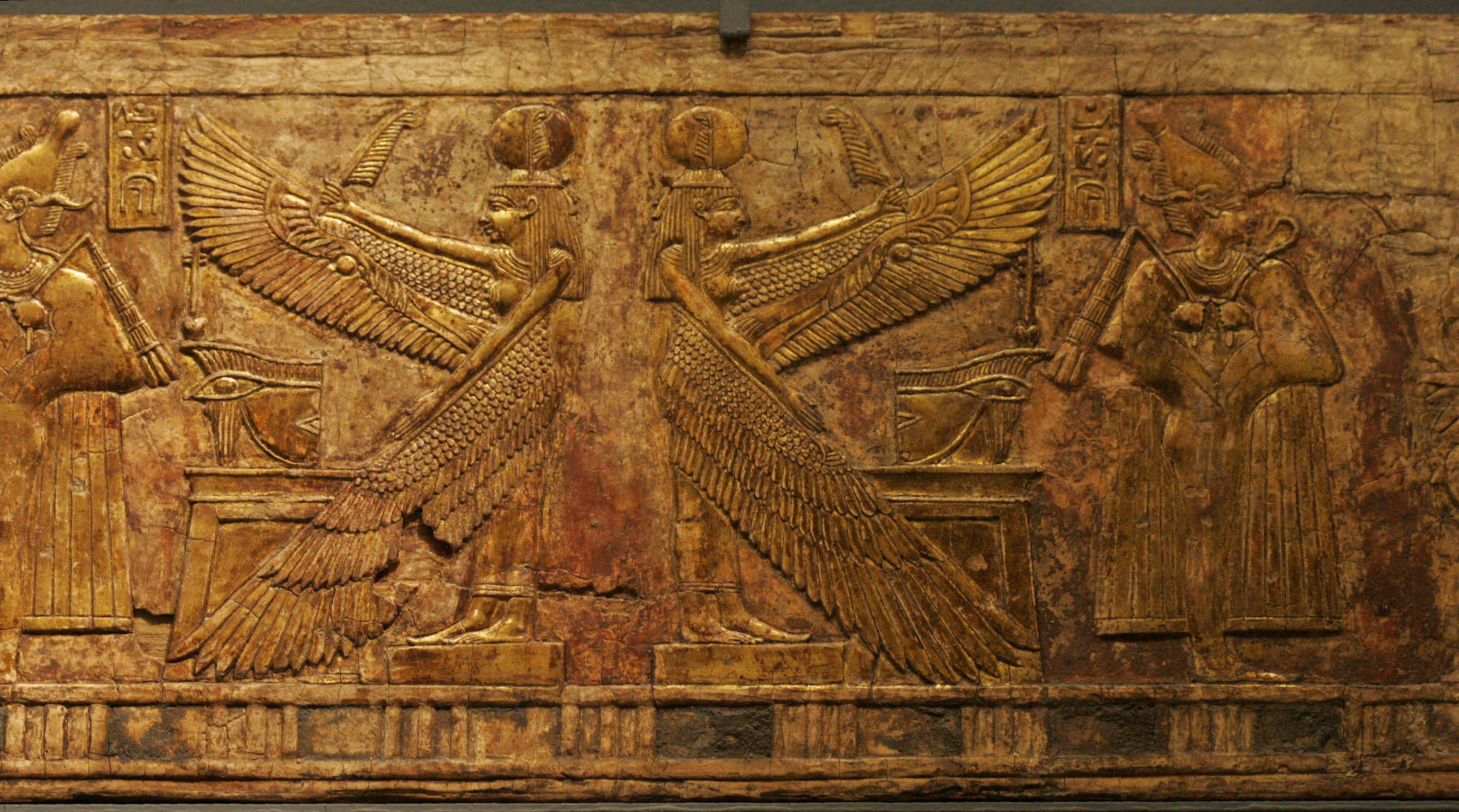 ArtistUnknownCurrent location (Inventory)Louvre Museum Native nameMusée du LouvreLocationParisCoordinates48° 51′ 37″ N, 2° 20′ 15″ E Established1793Website control : Q19675 VIAF: 257711507 ISNI: 0000 0001 2260 177X ULAN: 500125189 LCCN: n80020283 NLA: 35912436 WorldCat References[ Louvre.fr]Source/PhotographerRama